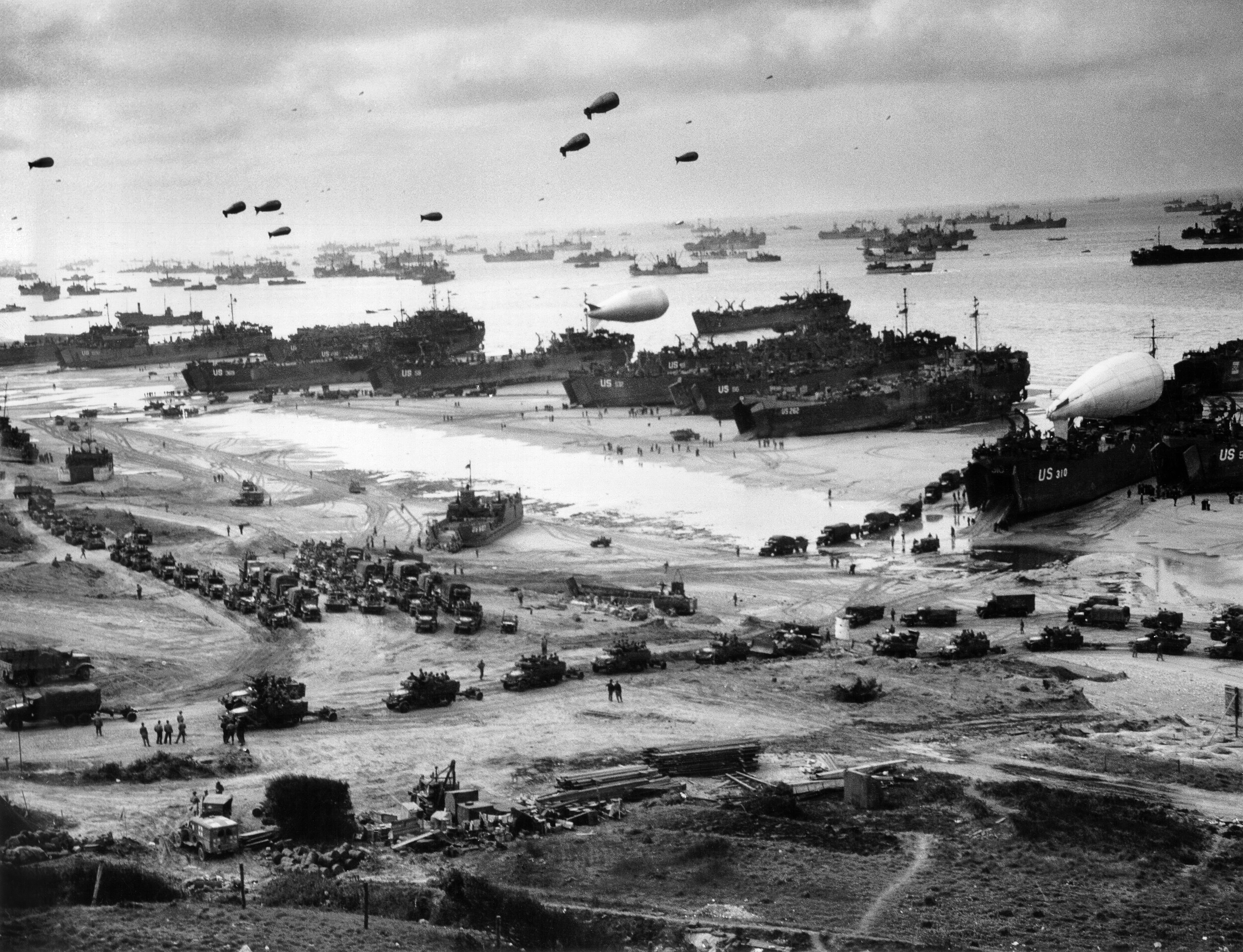 Landing ships putting cargo ashore on Omaha Beach, at low tide during the first days of the operation, mid-June, 1944. Among identifiable ships present are LST-532 (in the center of the view); USS LST-262 (3rd LST from right); USS LST-310 (2nd LST from right); USS LST-533 (partially visible at far right); and USS LST-524. Note barrage balloons overhead and Army "half-track" convoy forming up on the beach. The LST-262 was one of 10 Coast Guard-manned LSTs that participated in the invasion of Normandy, France. This is a retouched edit of the original file which can be found here. This version has had dust and scratches removed, slight tonal imbalances corrected and a tiny white residual border cropped out, otherwise as per the original. Edited and uploaded by mikaultalk 13:18, 16 April 2007 (UTC) Original version